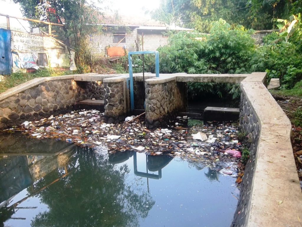 garbage trapped behind weir, in Bogor